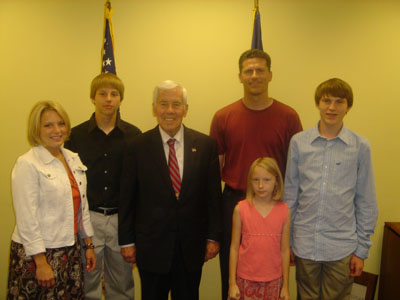 Senator Richard Lugar with Indiana State Representative Sean Eberhart, his wife Rebecca and children Nathan, Nicholas and Danielle.